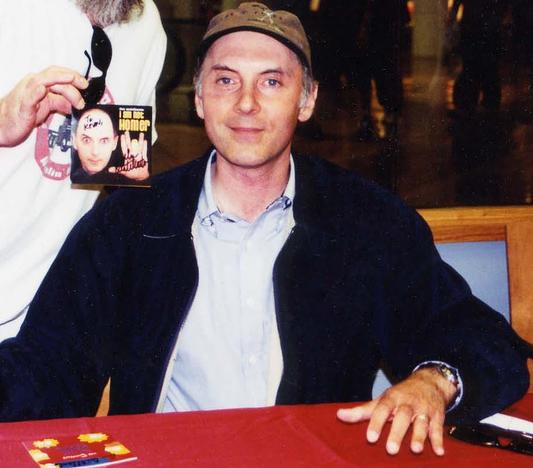 Dan Castellaneta at a signing in 2002